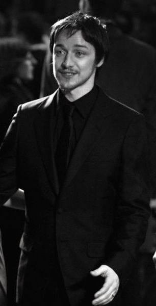 James McAvoy at the Orange British Academy Film Awards in London's Royal Opera House